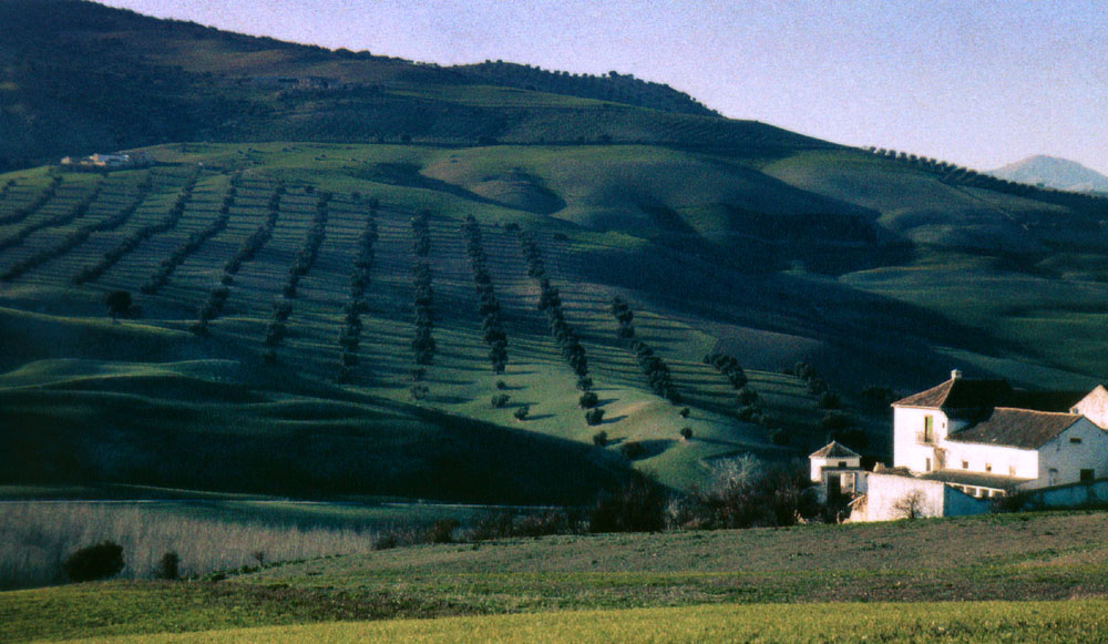 Farmhouse with olive groves, nr Alhama, Spain (2000) Shot with Nikon FE2 + 85mm f2 lens on Polaroid Polachrome instant color slide film.